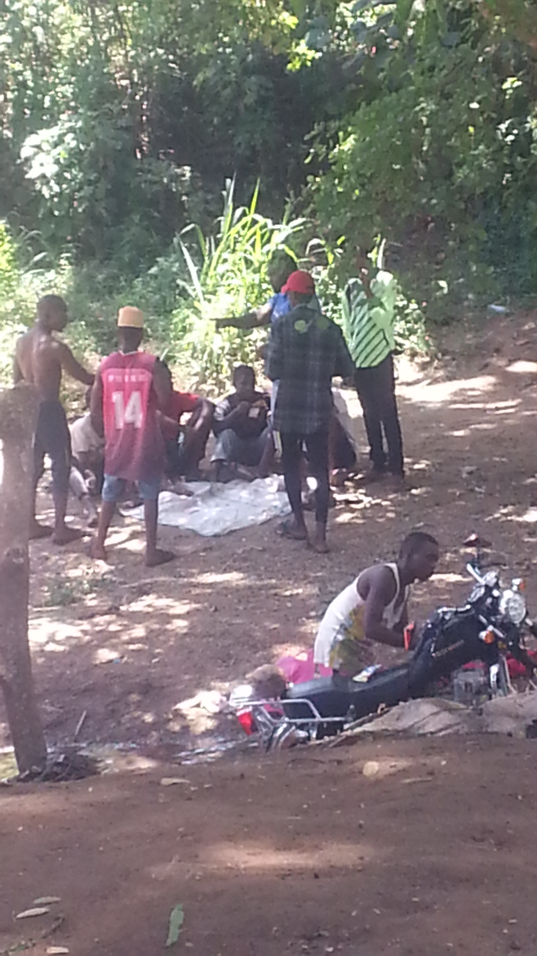 This is an image with the theme "Play" from: Tanzania